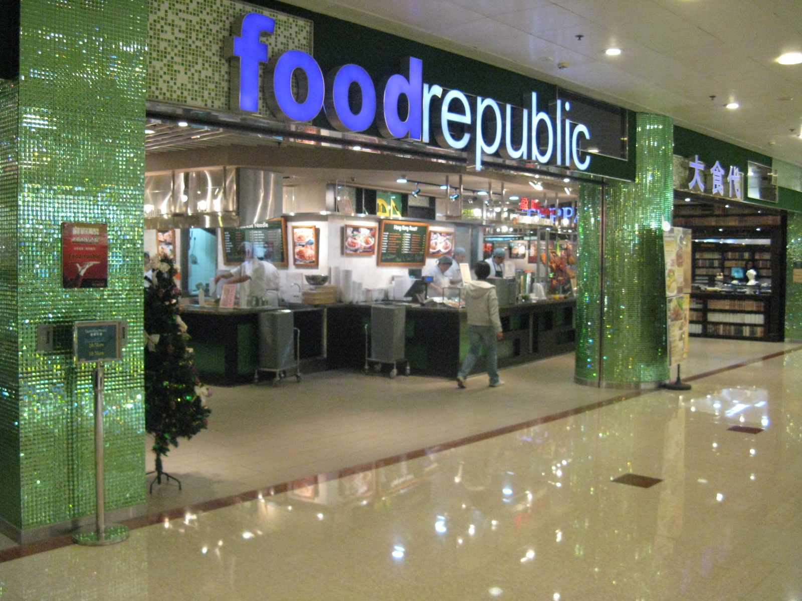 foodrepublic